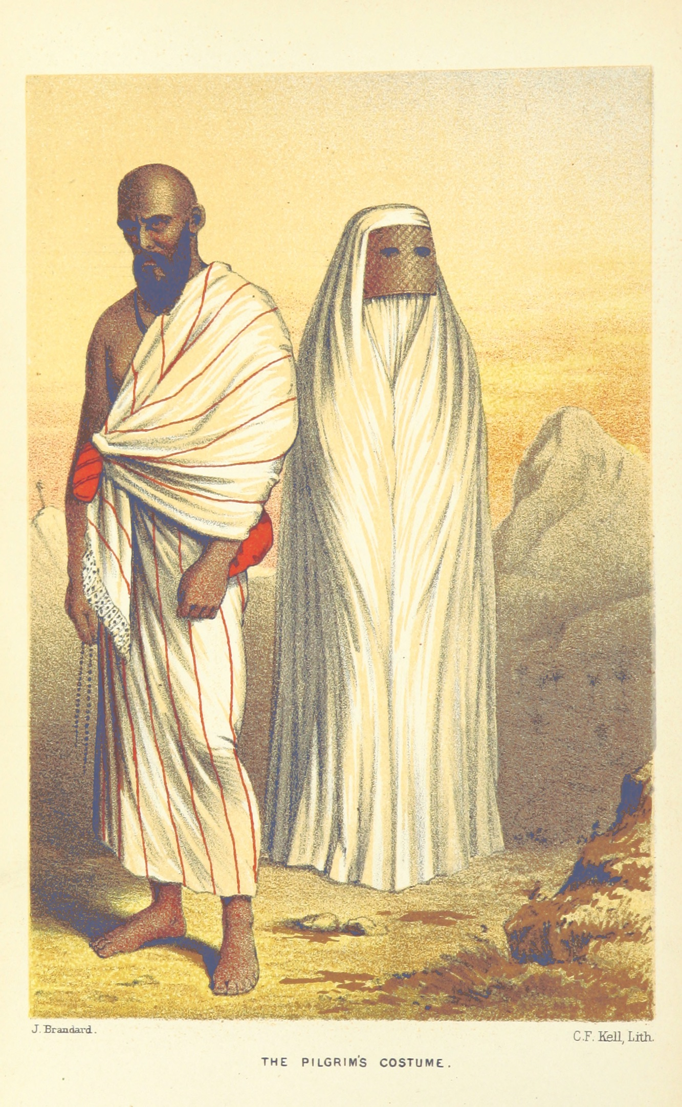 Image taken from: Title: "Vikram and Vampire; or, Tales of Hindu devilry. Adapted by Captain Sir Richard F. Burton [from the Baitāl-Pachīsī] ... Edited by his wife, Isabel Burton ... With thirty-three illustrations by Ernest Griset" Shelfmark: "British Library HMNTS 12273.k.1." Volume: 02 Page: 168 Place of Publishing: London Date of Publishing: 1893 Publisher: Tylston & Edwards Issuance: monographic Identifier: 000174209 Note: The colours, contrast and appearance of these illustrations are unlikely to be true to life. They are derived from scanned images that have been enhanced for machine interpretation and have been altered from their originals. If you wish to purchase a high quality copy of the page that this image is drawn from, please order it here. Please note that you will need to enter details from the above list - such as the shelfmark, the page, the book's volume and so on - when filling out your order. Following this or the link above will take you to the British Library's integrated catalogue. You will be able to download a PDF of the book this image is taken from, as well as view the pages up close with the 'itemViewer'. Click on the 'related items' to search for the electronic version of this work. Click here to see all the illustrations in this book and click here to browse other illustrations published in books in the same year. Please click on the tags shown on the right-hand side for other ways to browse the illustrations.